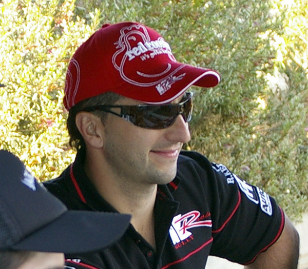 Tony Ricciardello at an autographing session at Red Rooster in Wagga Wagga, New South Wales.